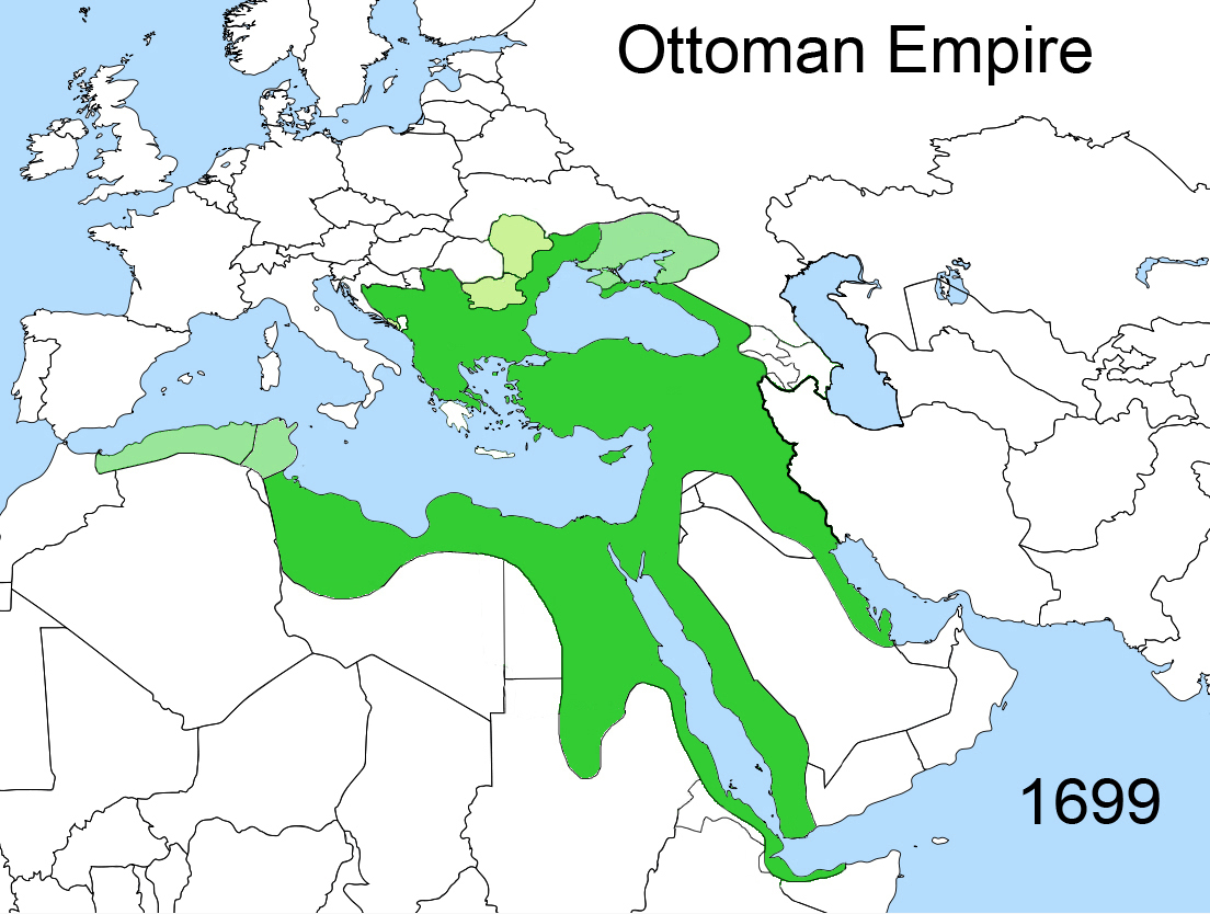 The factual accuracy of this map or the file name is disputed.Reason: Please see the relevant discussion on the talk page.